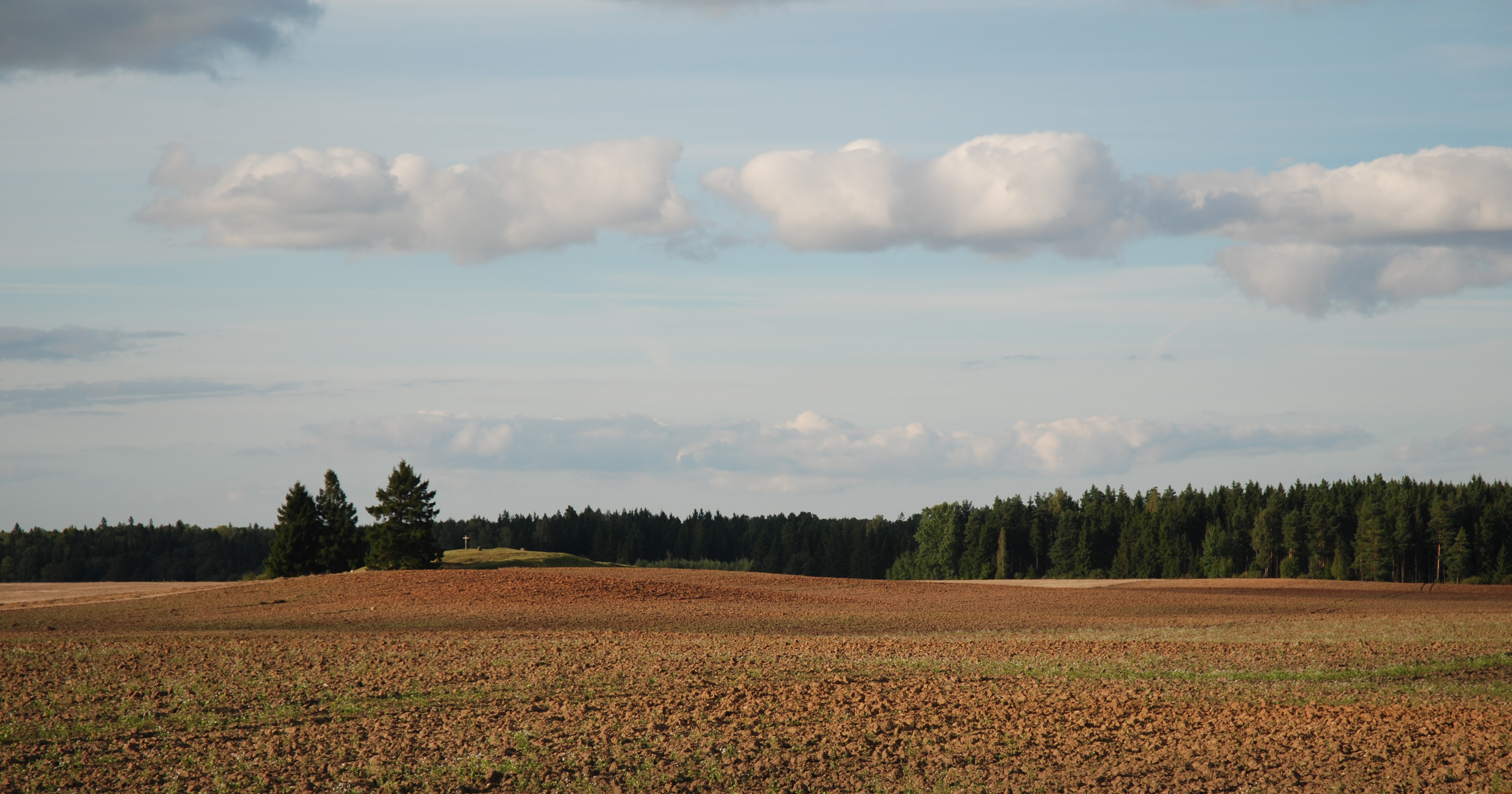 Žagarė Forest, Joniškis District, Lithuania